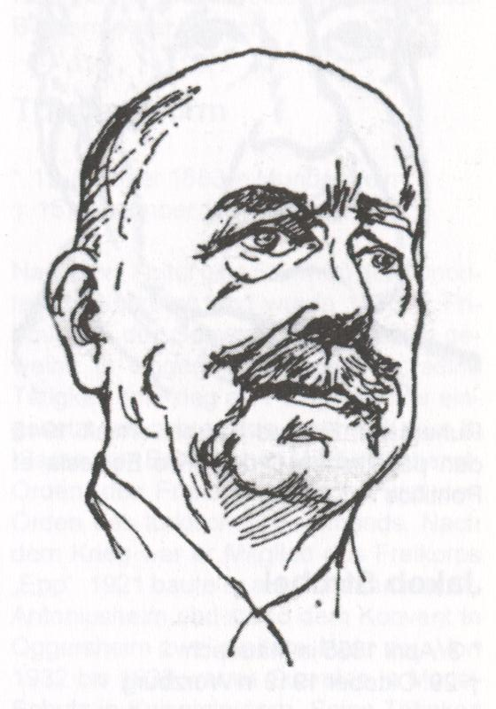 Drawing showing DE:Otto Strobel around 1925